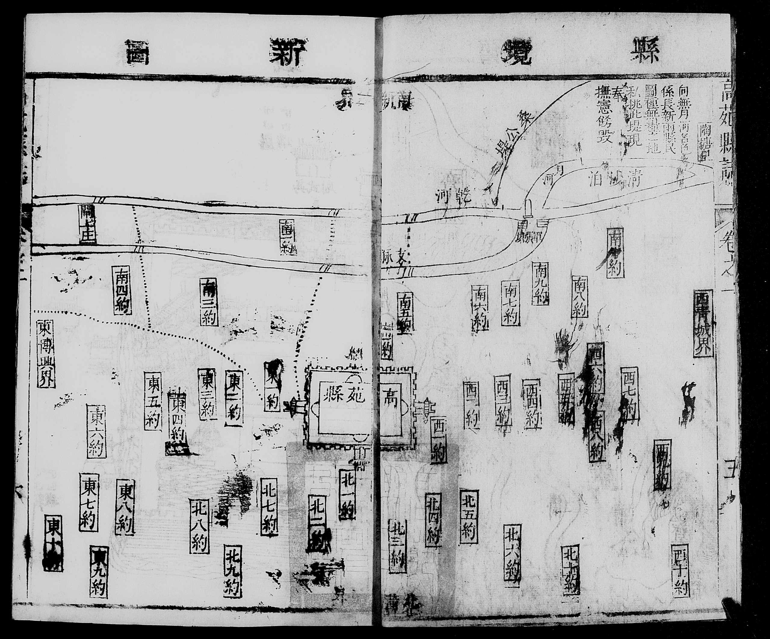 Gaoyuan County of Shandong China in Qing Dynasty